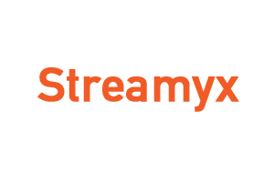 Streamyx logo as used in 2015